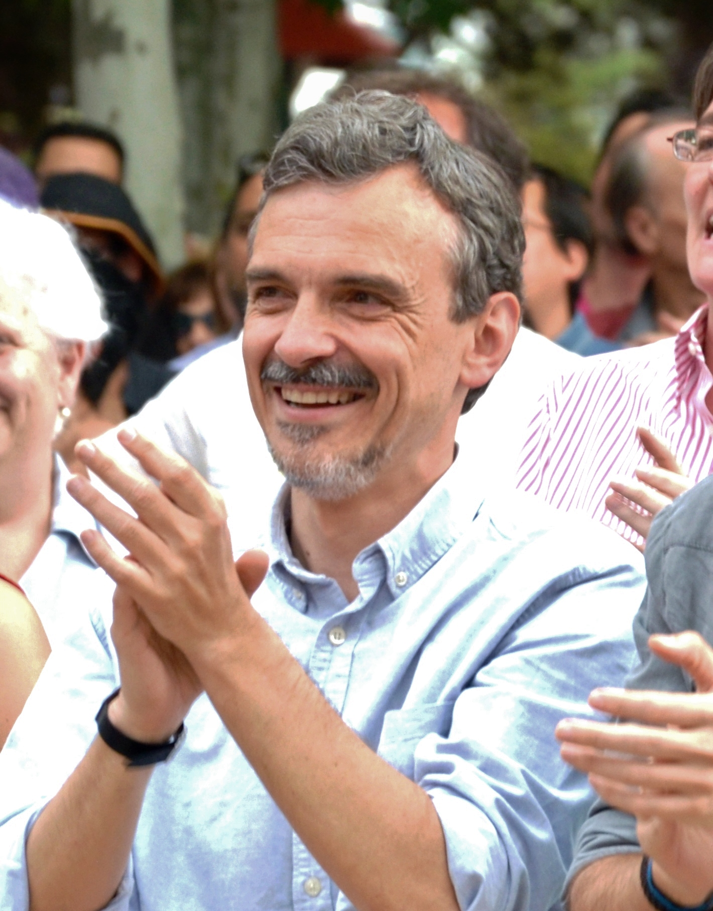 Fotógrafa: Leyre Pérez González This is a retouched picture, which means that it has been digitally altered from its original version. Modifications: Contrast & Brightness modifications.